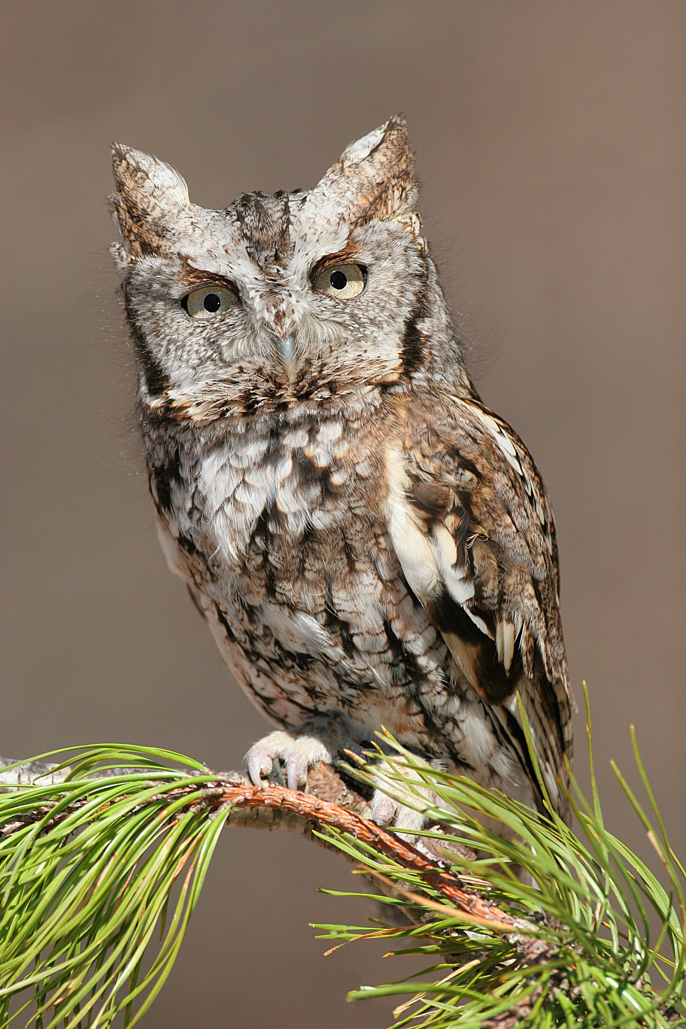 Eastern Screech Owl (Megascops asio, grey morph).